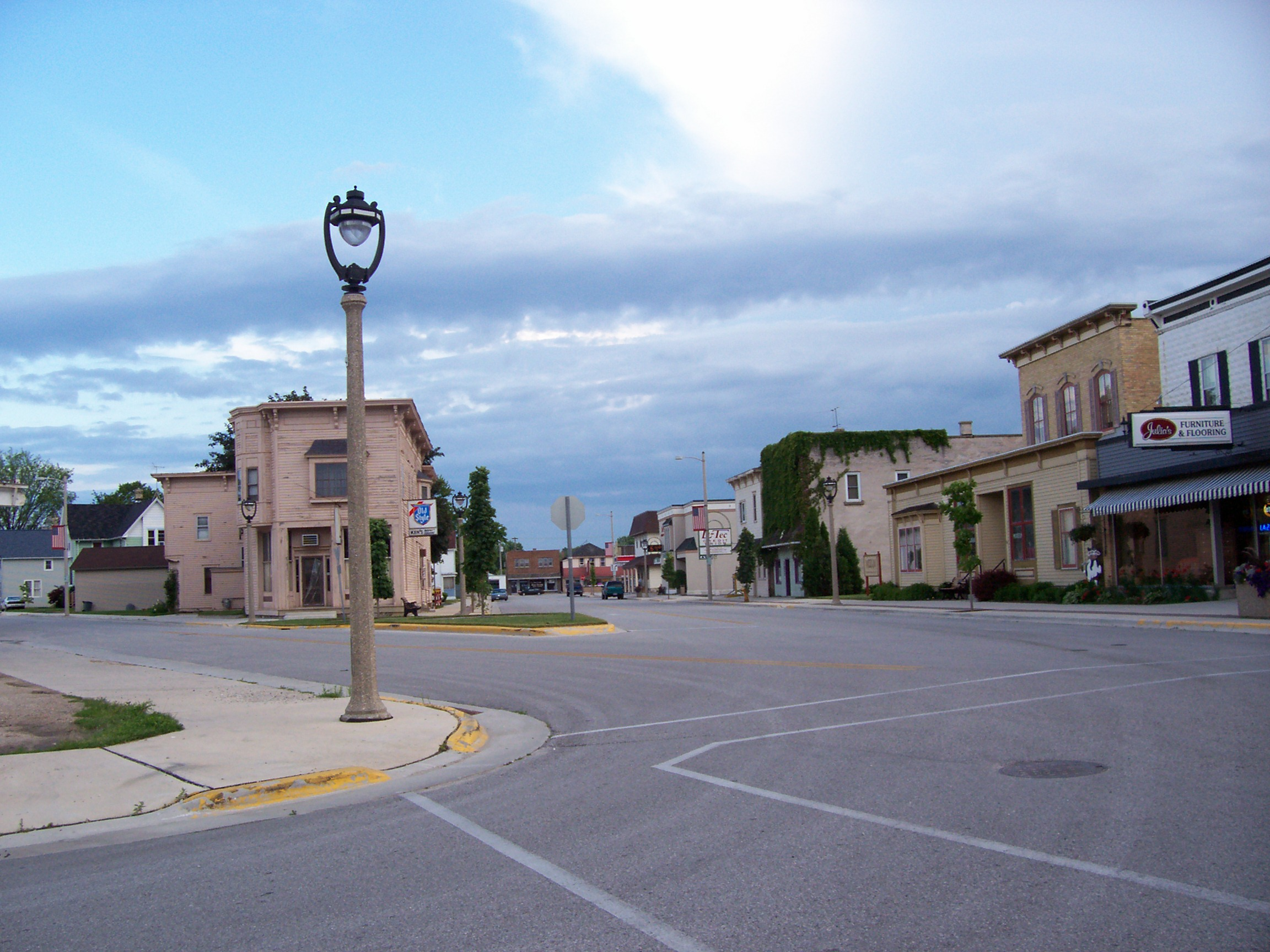 Summary Downtown New Holstein, Wisconsin, USA, taken June 25 en:2006 by myself. Category:Images of Wisconsin